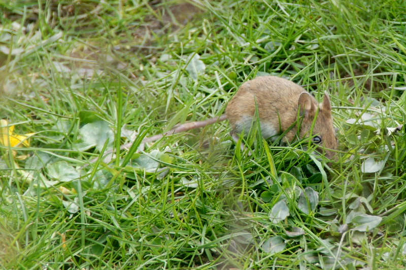 Wood Mouse (Apodemus sylvaticus), Baltasound, Shetland Islands, Great Britain. Wood Mouse is not a very appropriate name for Shetland, where there are no woods, so it is more appropriately known as the "Hill Mouse" or "Field Mouse" in Shetland. Like all terrestrial mammals in Shetland, mice were brought to the islands by humans; in this case accidentally. It was once thought that mice arrived in Shetland with the Vikings, but it is now known from archaeology that they were here long before this. Shetland Field Mice are larger and darker than mice found in the rest of Britain or on mainland Europe and they breed on all islands inhabited by humans. The named subspecies are A. s. granti described from Yell, A. s. thuleo from Foula and A. s. friadriensis from Fair Isle. The races found elsewhere in Shetland are unknown – it is likely that the Yell race breeds elsewhere but it is possible that new races are awaiting description on other islands.